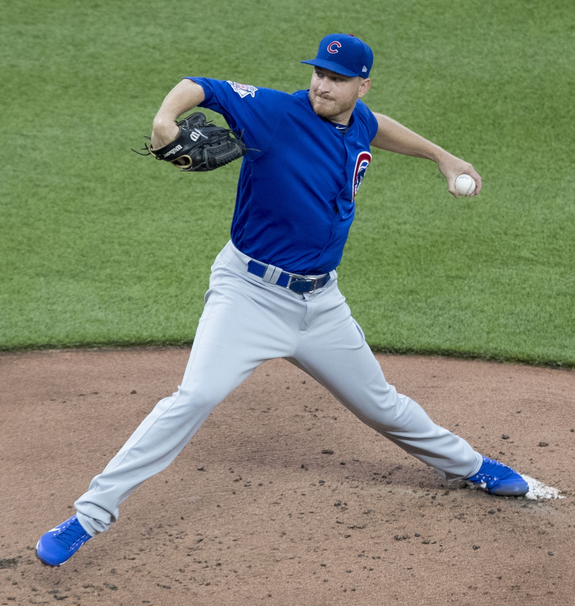 Cubs at Orioles 7/14/17